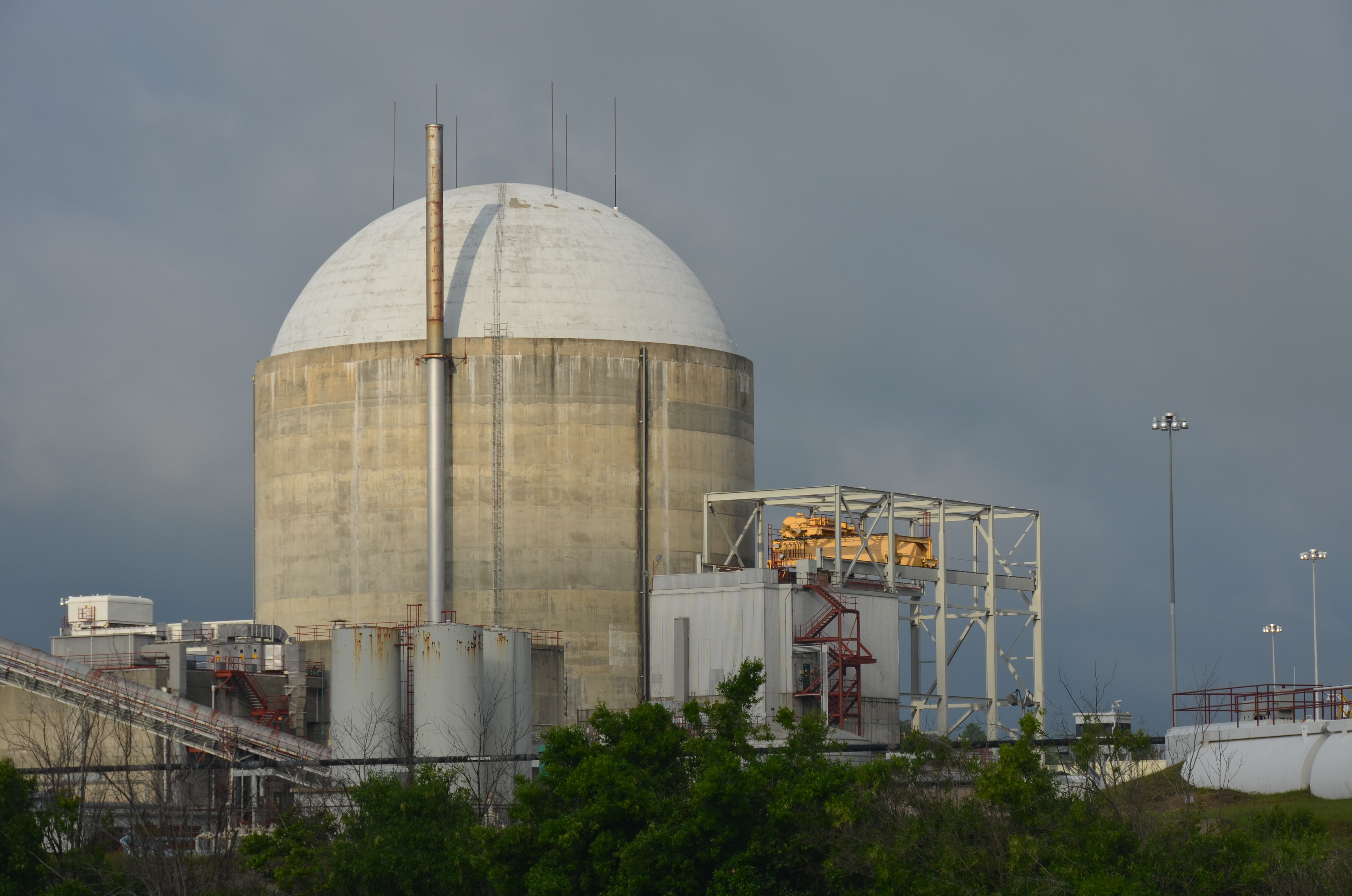 Containment building for Robinson Nuclear Station